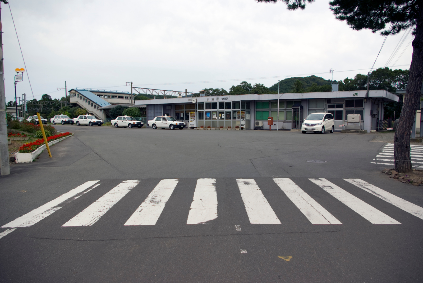 Aoimori Railway Kominato Station